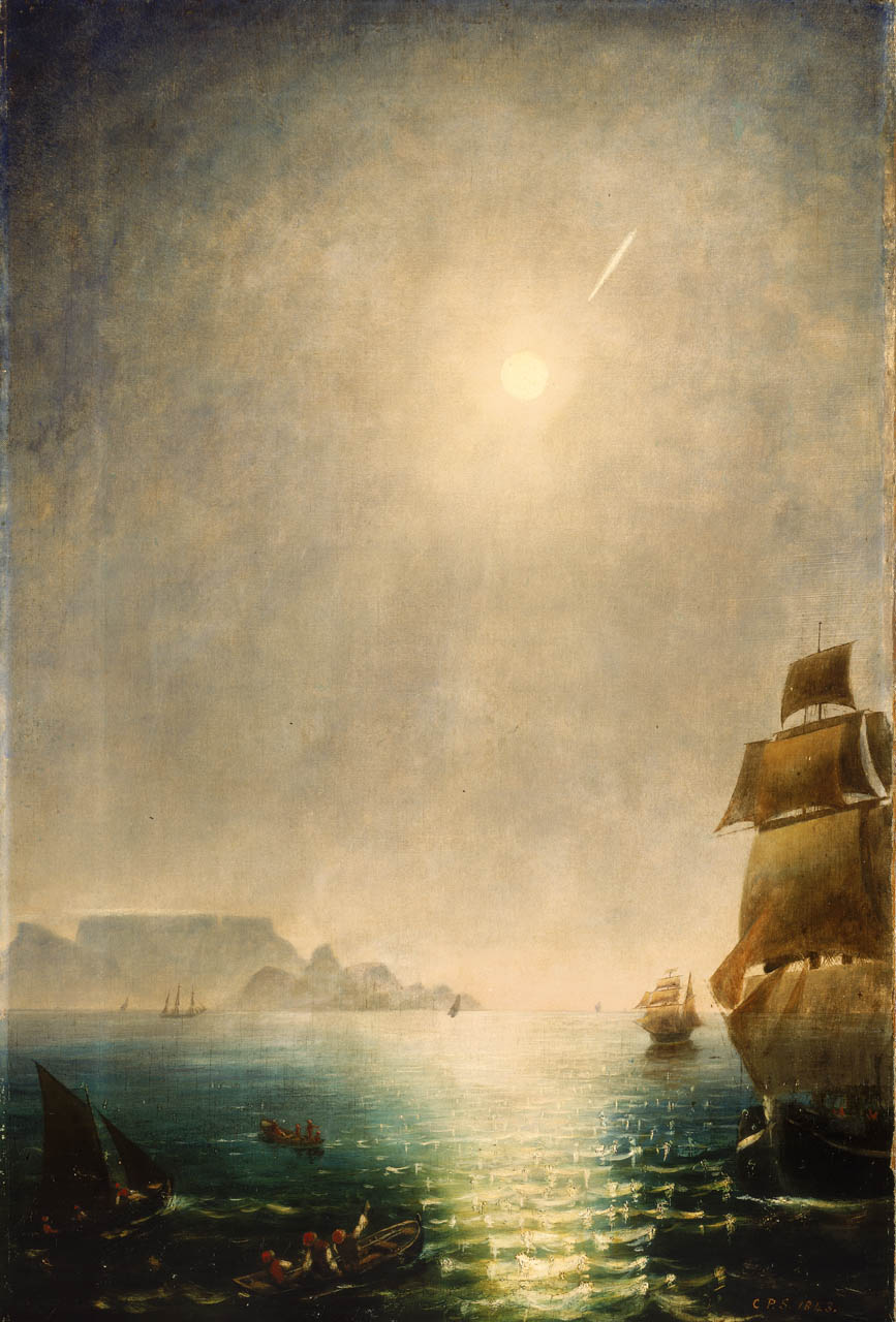 An eyewitness account of the Great Comet of 1843 painted by the astronomer Charles Piazzi Smyth.